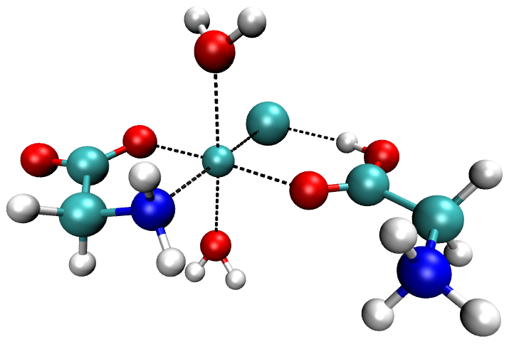 Structure of the SIPF complex